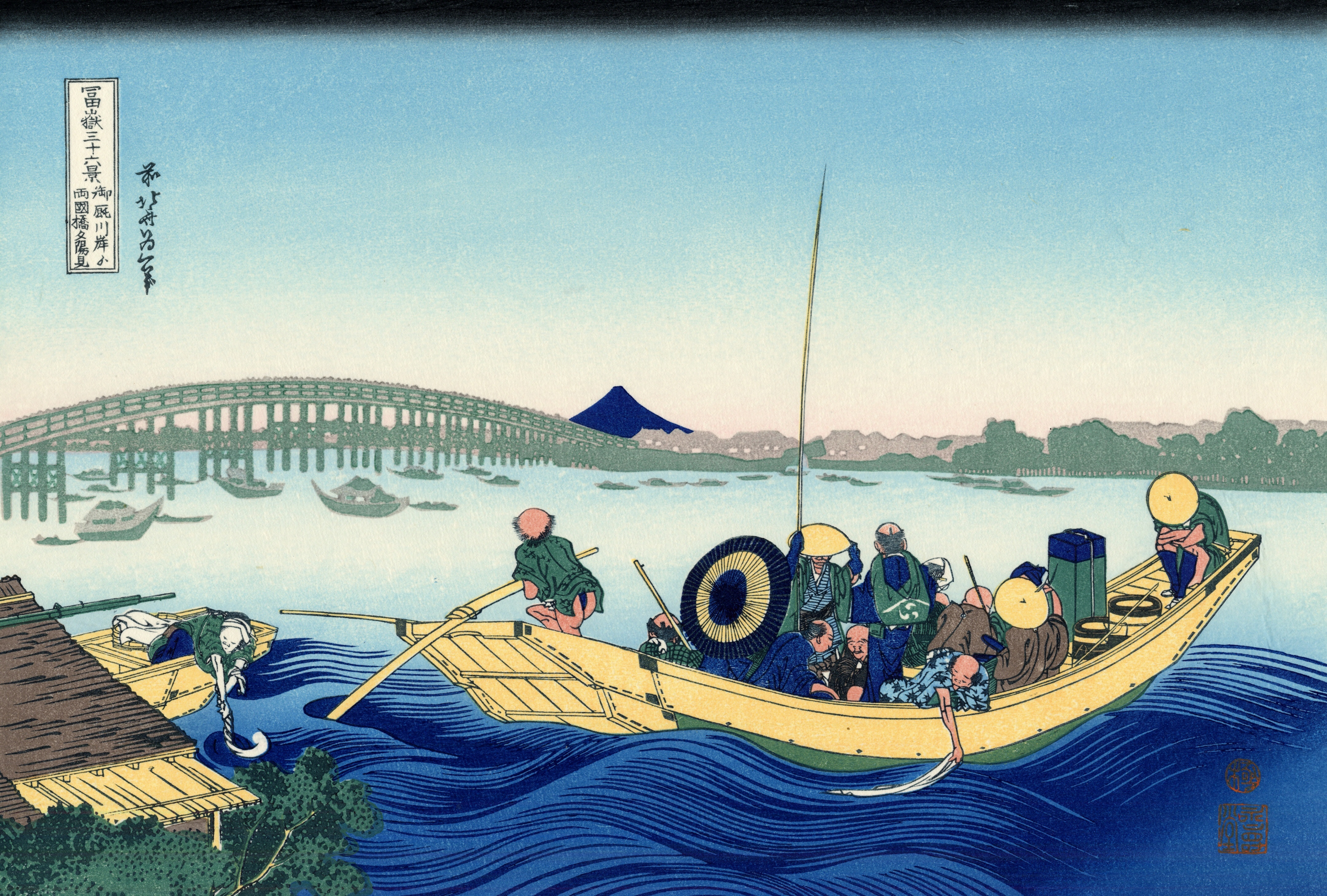 Part of the series Thirty-six Views of Mount Fuji, no. 12.